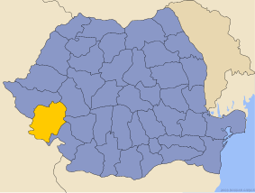 Location of Caraș-Severin County in Romania.